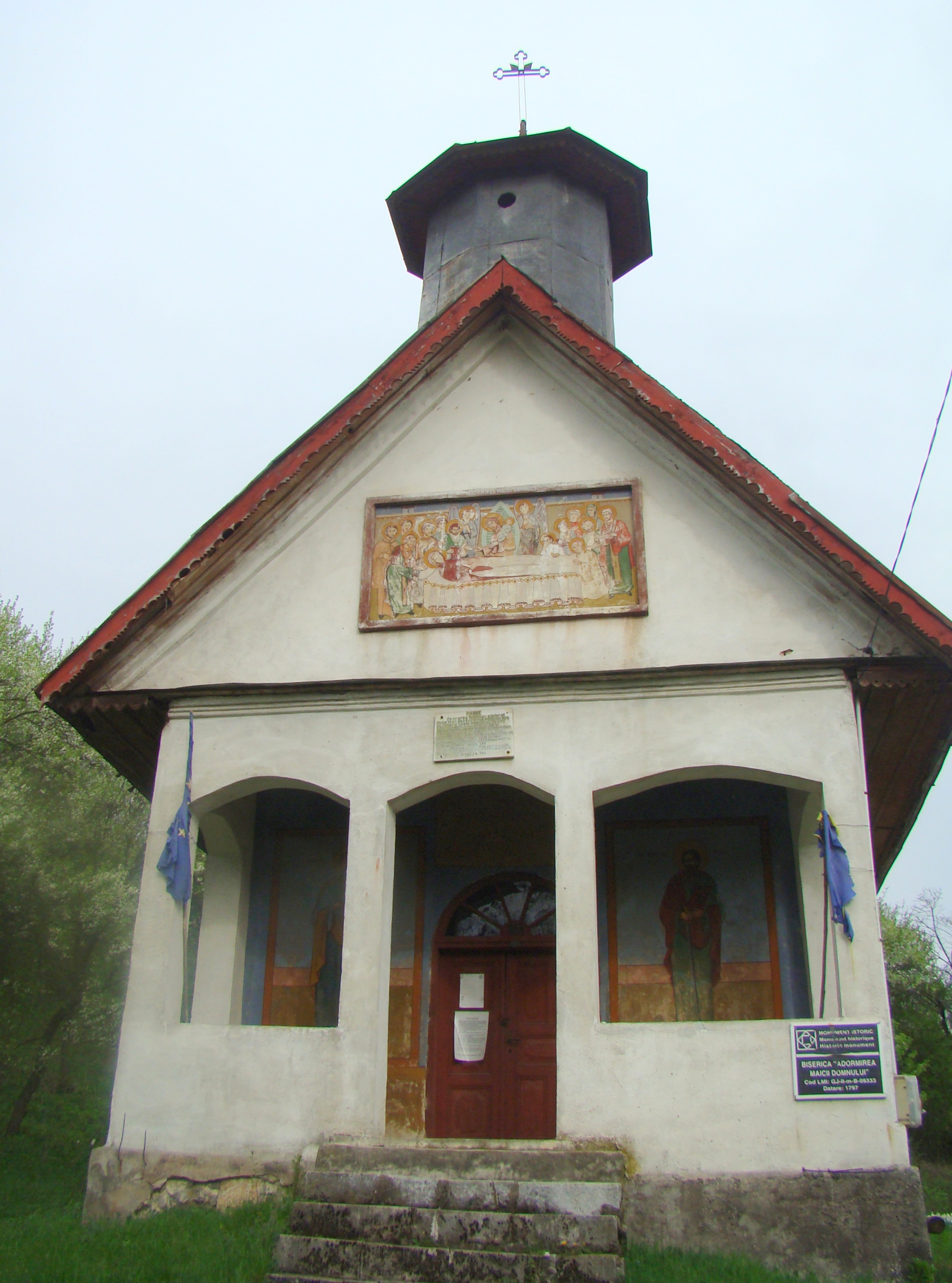 Church of the Dormition in Lupoița, Gorj county, Romania